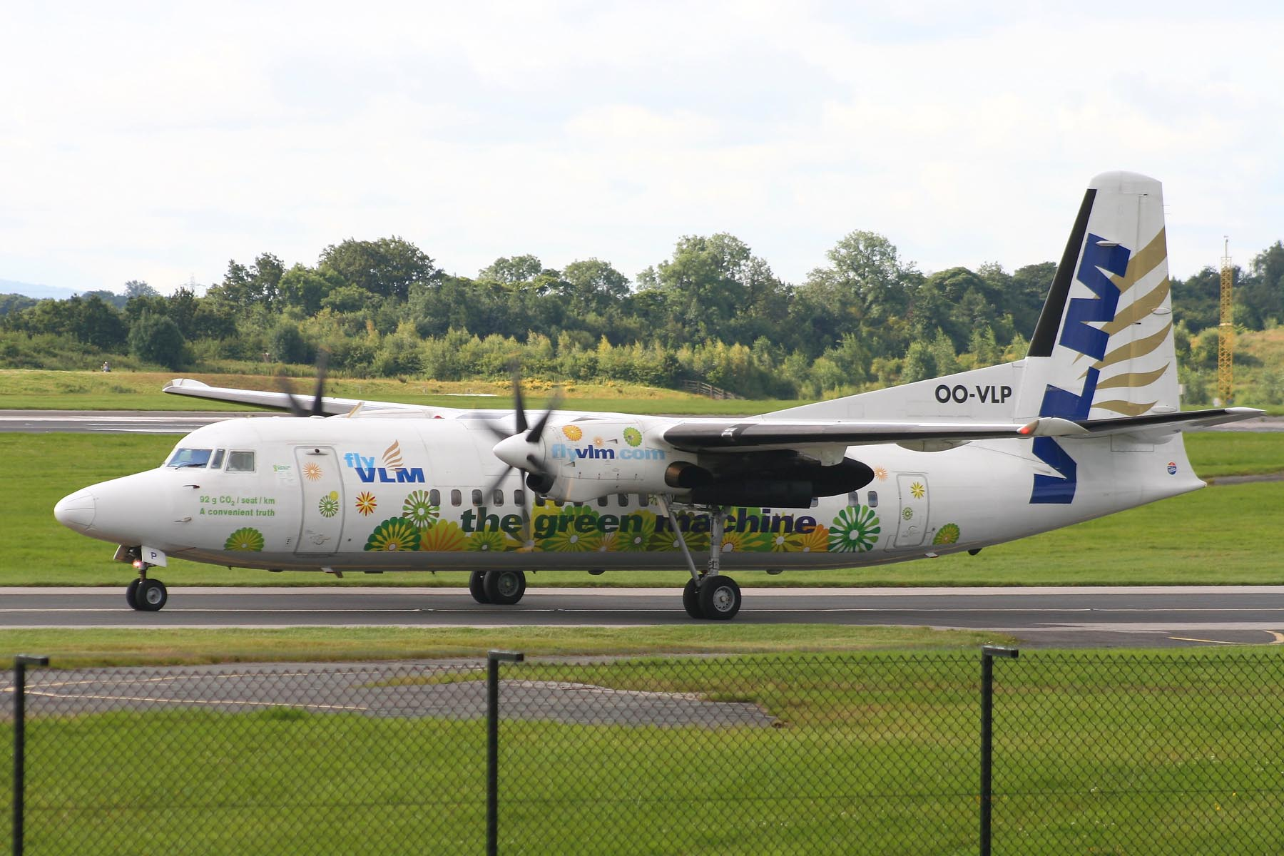 VLM's "The Green Machine" special 'eco friendly' c/s